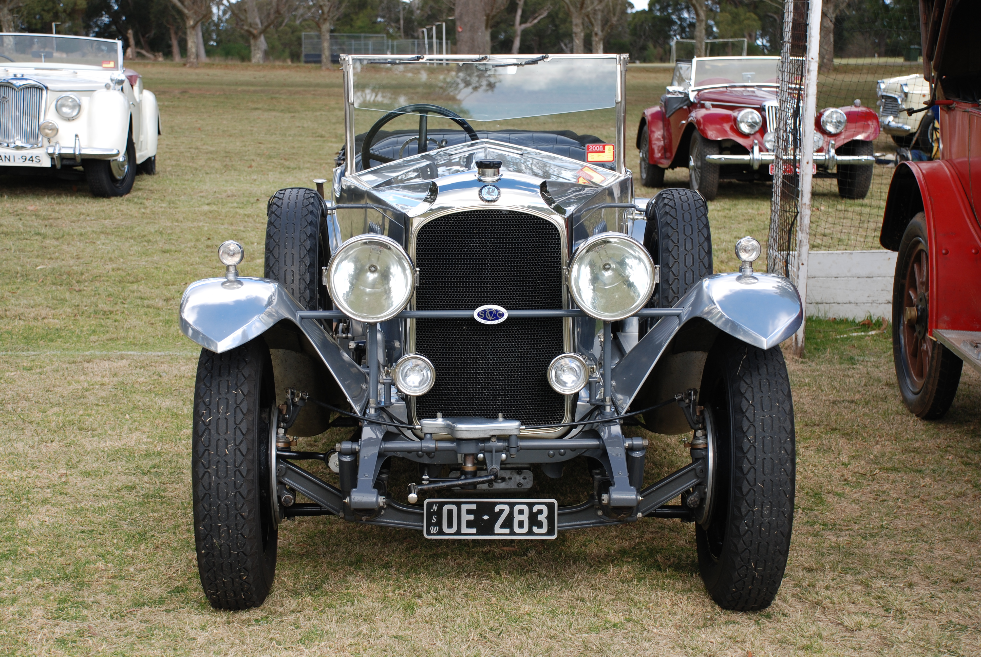 Car display on Australian National Motoring Heritage Day, Bowral NSW, 2008. 1926 Vauxhall 30-98 with polished aluminium 'Velox' body.